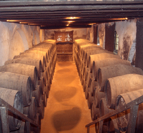 Cellar with sherry crates